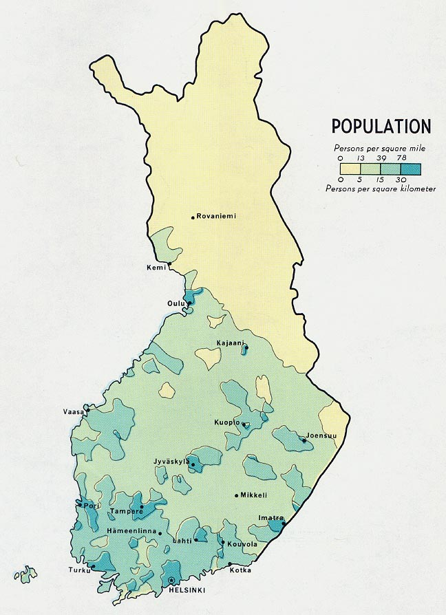 Population density map of Finland (1969)